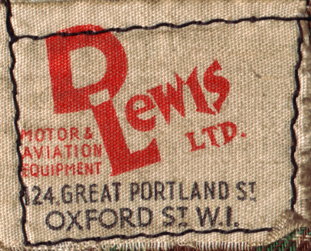 Original D Lewis label